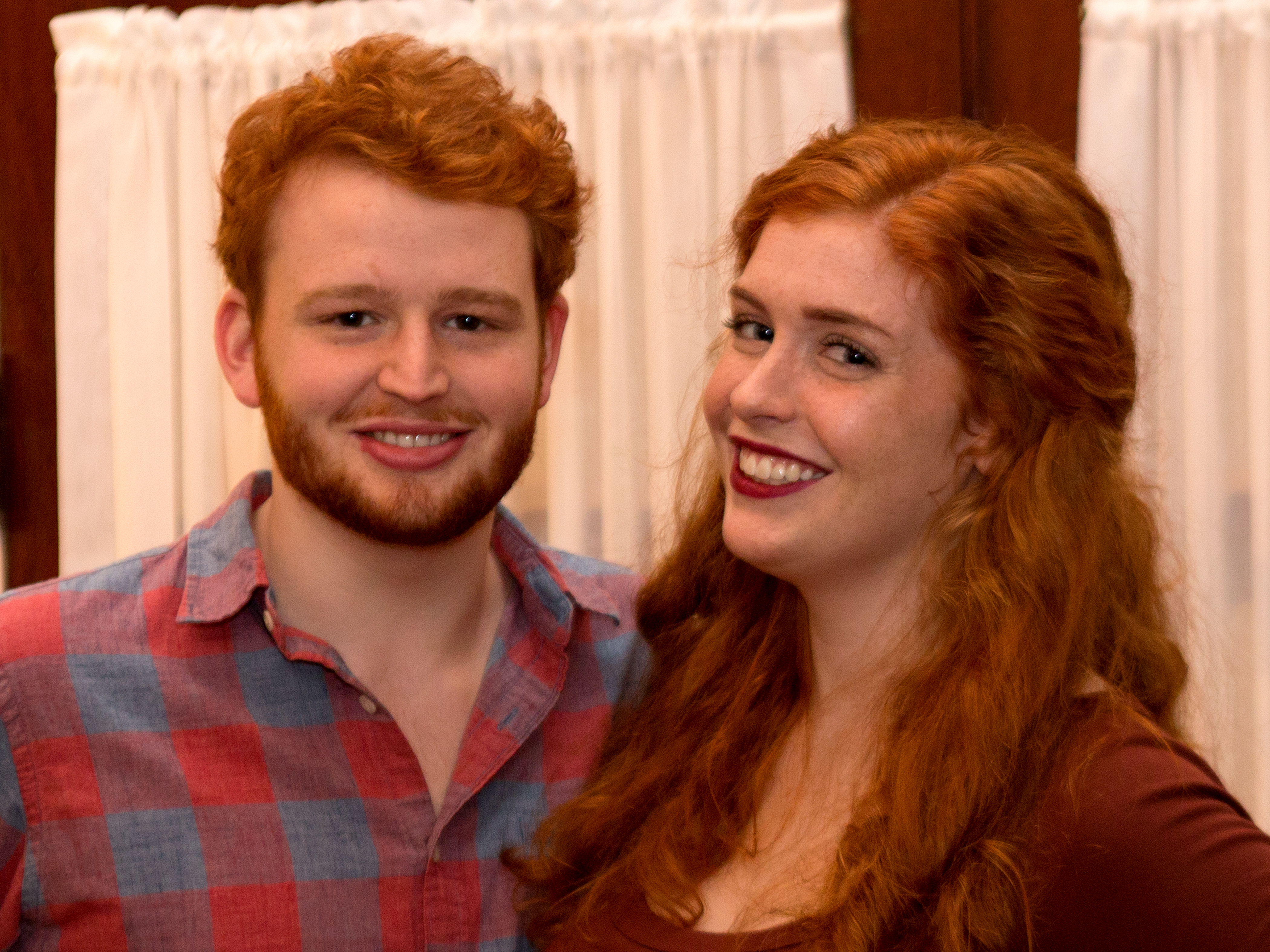 Fraternal twins with red hair